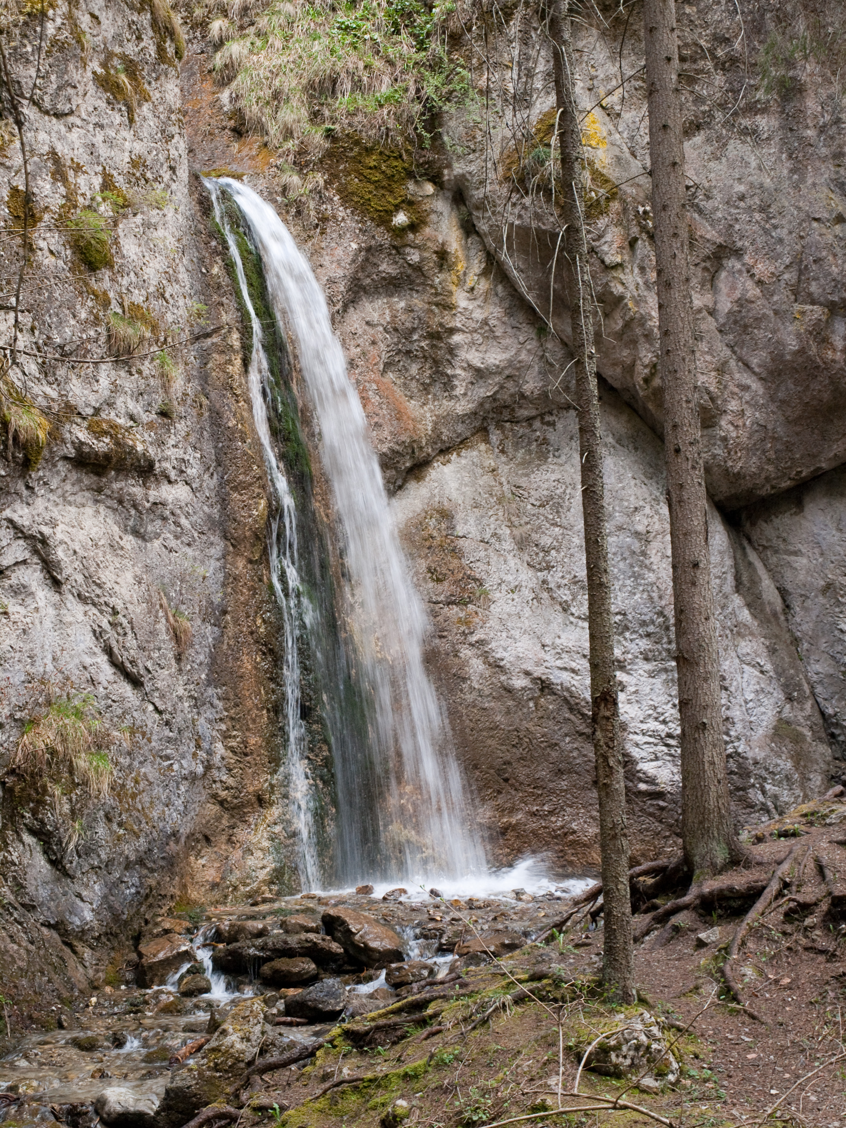 Lower waterfall (Poľovníkov vodopád) in Šanková (Starej vody) valley.